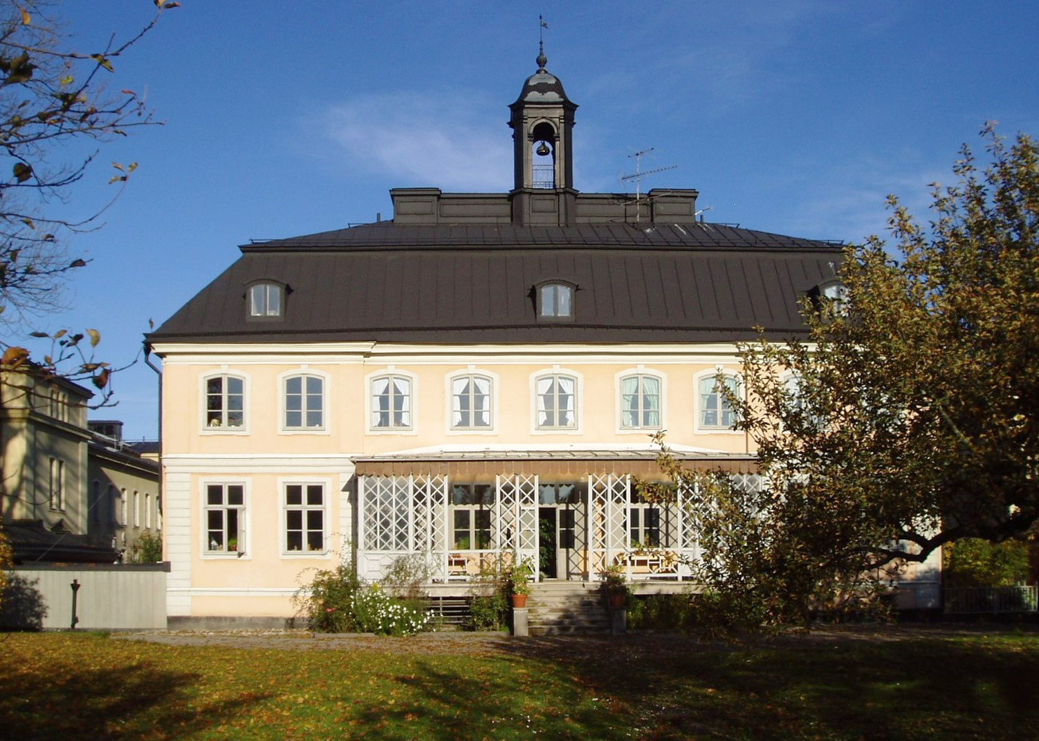 Kristineberg castle, Kungsholmen, Stockholm